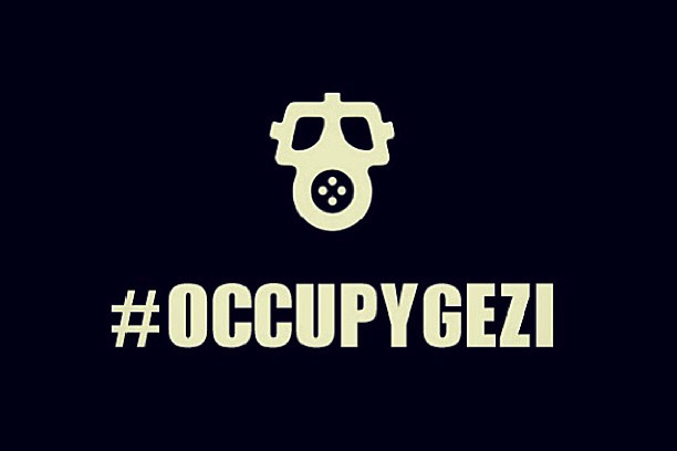 occupygezi